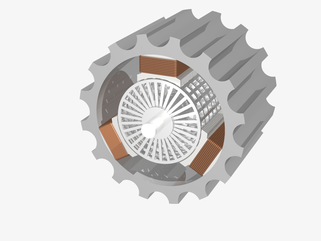 3 phase asynchronous electric motor (1024x768 PNG)